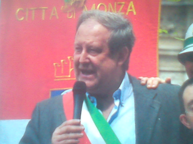 ex Major Marco Mariani (Monza)